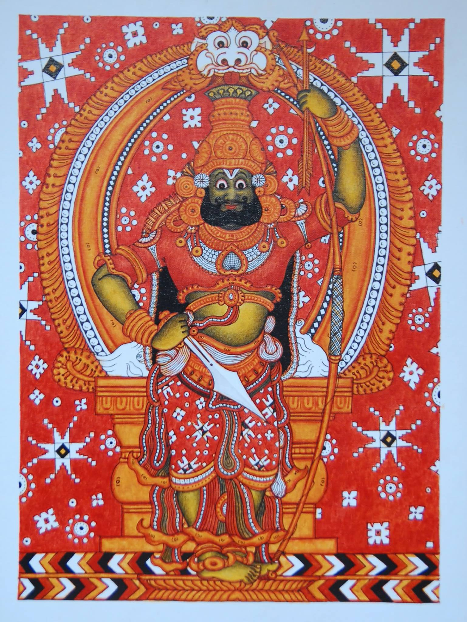 Local Hindu deity worshiped in Kerala